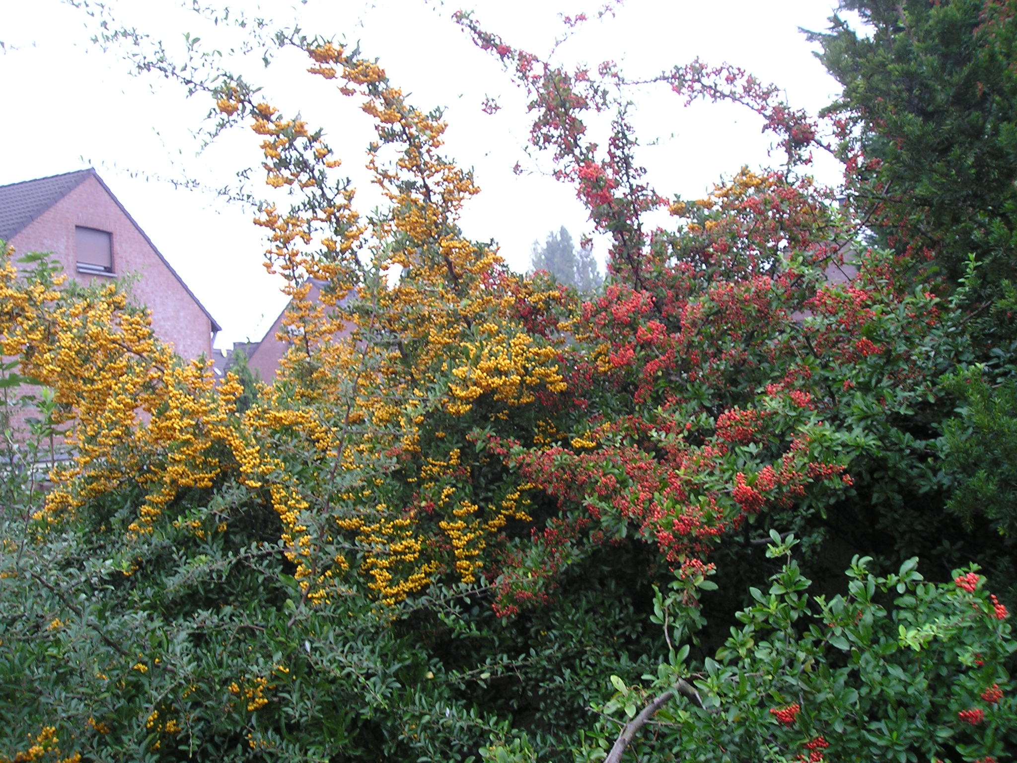 Pyracantha coccinea mit roten und orangefarbenen Beeren